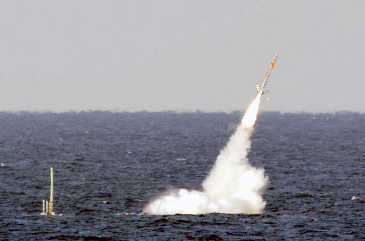 At sea with USS Florida (SSBN 728) Jan. 14, 2003 -- USS Florida launches a Tomahawk cruise missile during Giant Shadow in the waters off the coast of the Bahamas. Giant Shadow is a Naval Sea Systems Command (NAVSEA)/Naval Submarine Forces experiment to test the capabilities of the Navy’s future guided-missile submarines. Florida is one of four Ohio-class ballistic missile submarines (SSBN) being converted to guided missile submarines (SSGN). Giant Shadow is the first experiment under the “Sea Trial” initiative of the Chief of Naval Operations’ Sea Power 21 vision and the first in a series of experiments before converting and overhauling the four SSBNs to SSGNs. The SSGNs will have the capability to support and launch up to 154 Tomahawk missiles, a significant increase in capacity as compared to other platforms. U.S. Navy photo. (RELEASED)